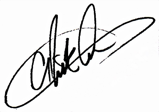 Nick Carter's autograph